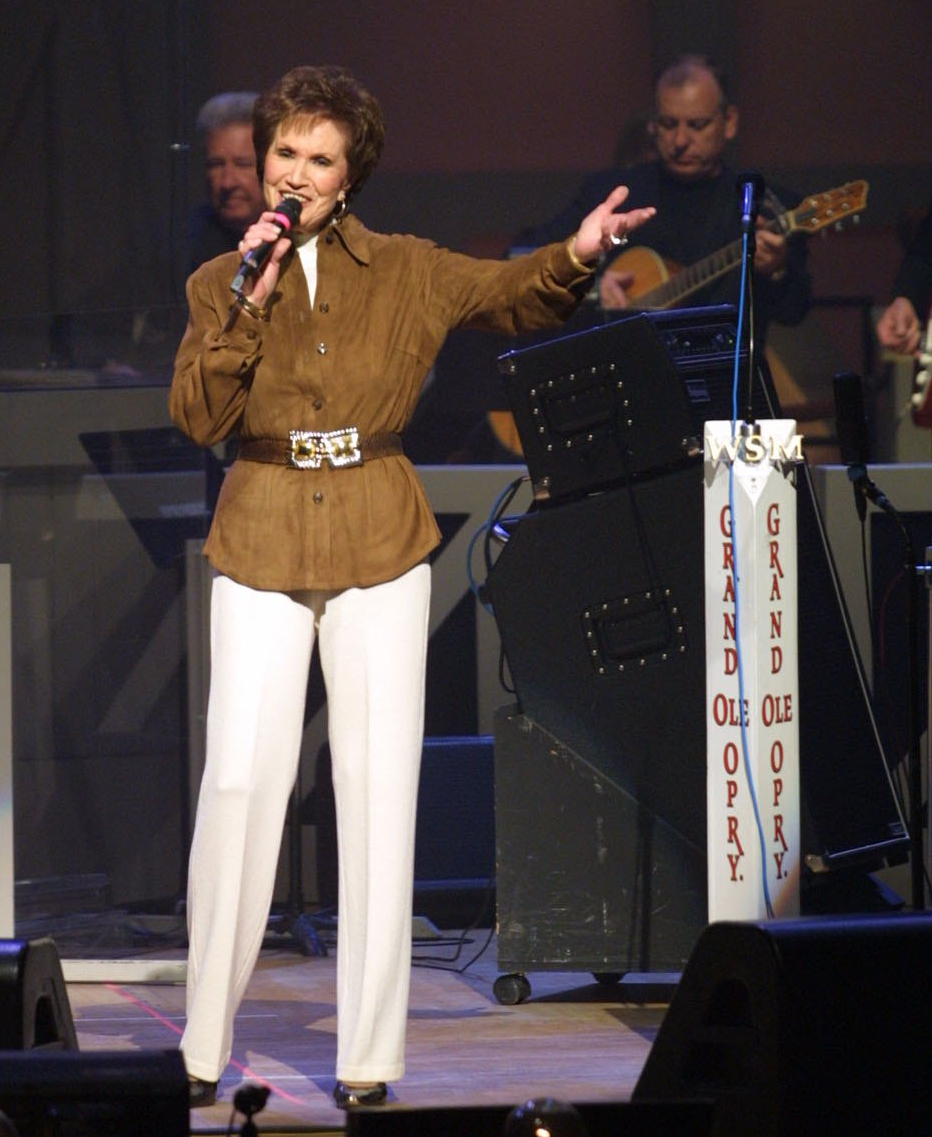 Jan Howard performing at the Grand Ole Opry, 2000s.